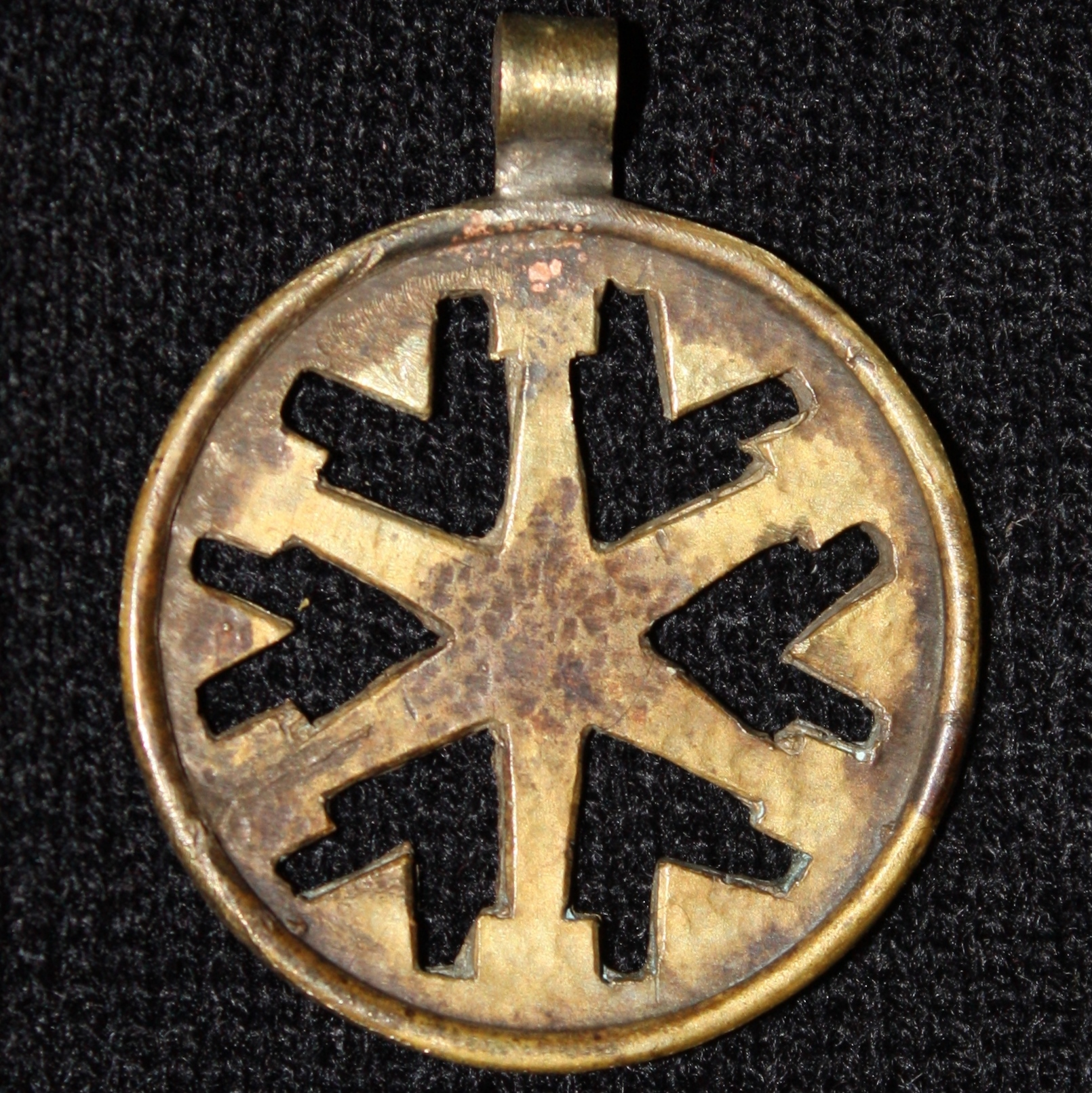 A pedant Sun Discus from Samegrelo, Georgia. 8-th - 7-th cc B.C.